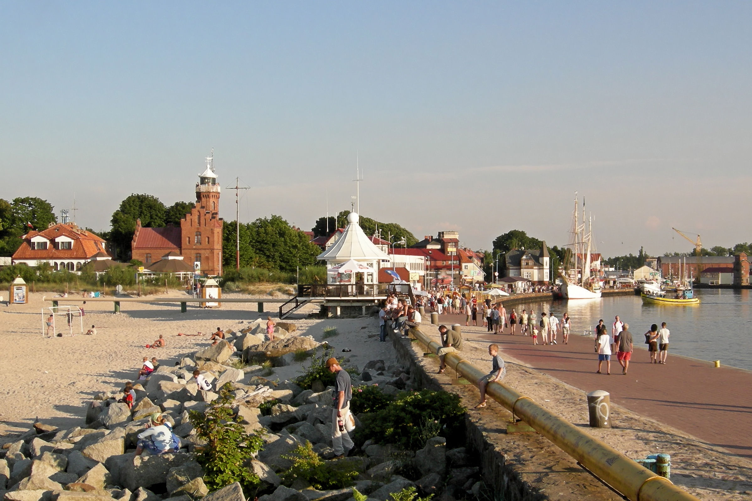 View of lighthouse and port, Ustka, Poland